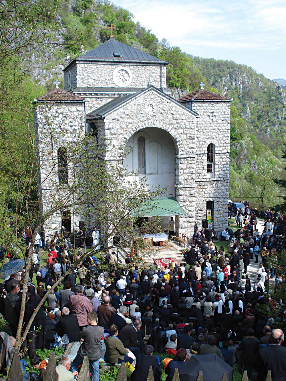 Franciscan monastery in Bosnia and Herzegovina